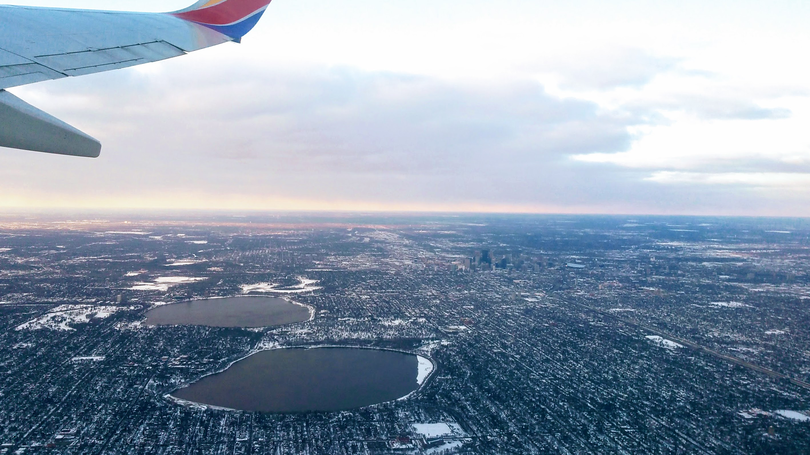 An aerial photo from Minneapolis with Downtown, Lake Calhoun, and Lake Harriet